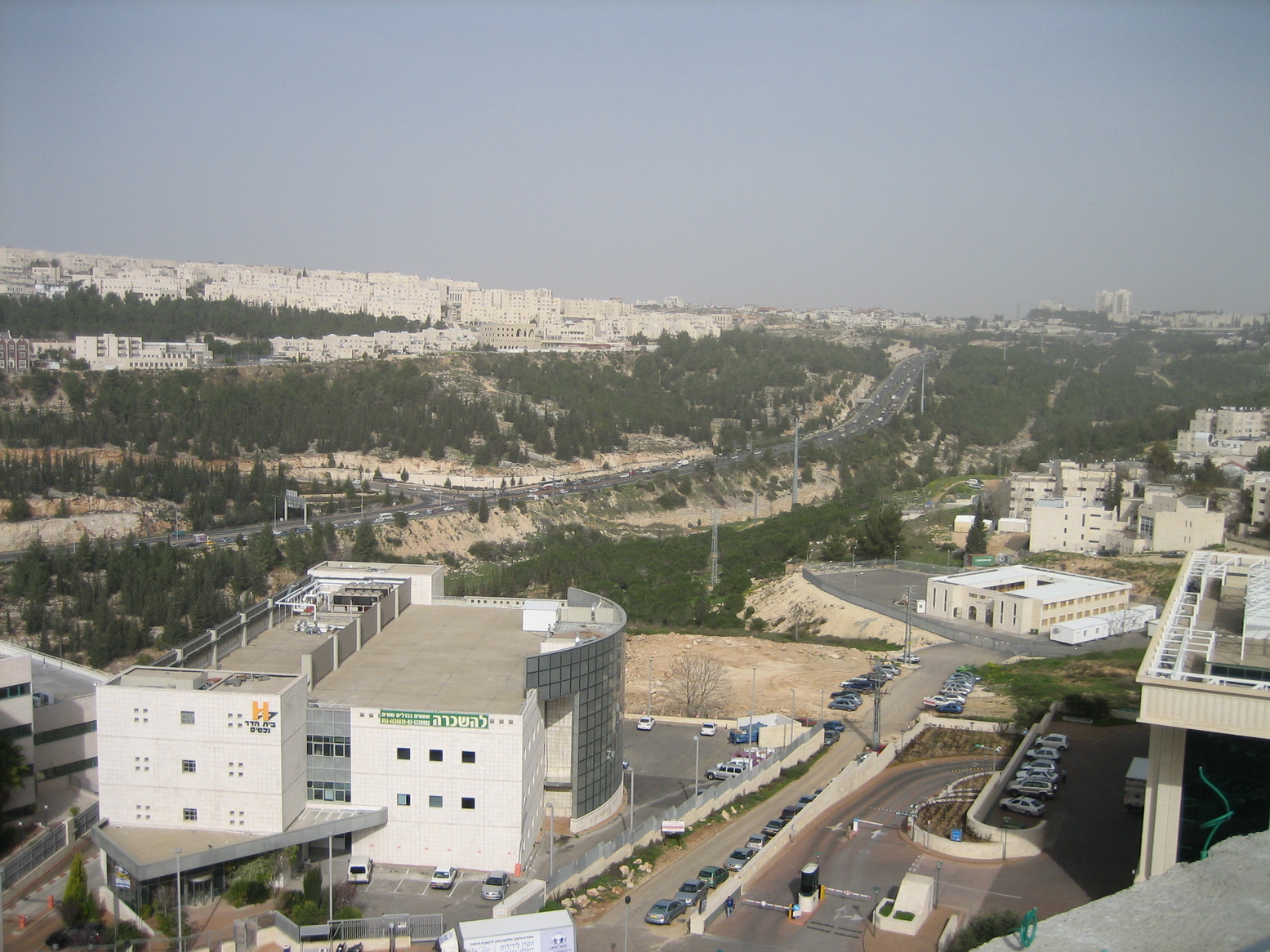 View East